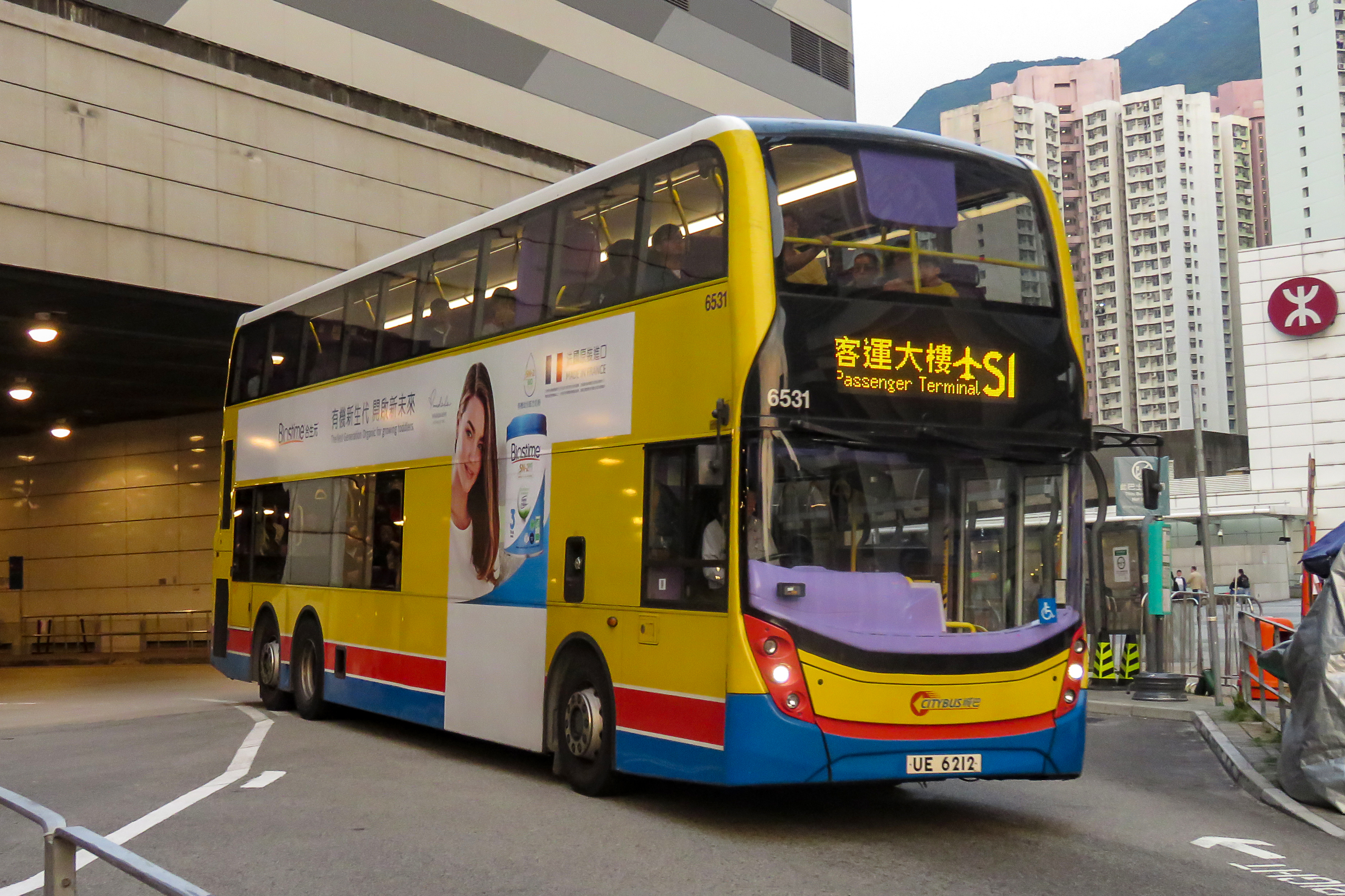 Seen leaving for the airport.